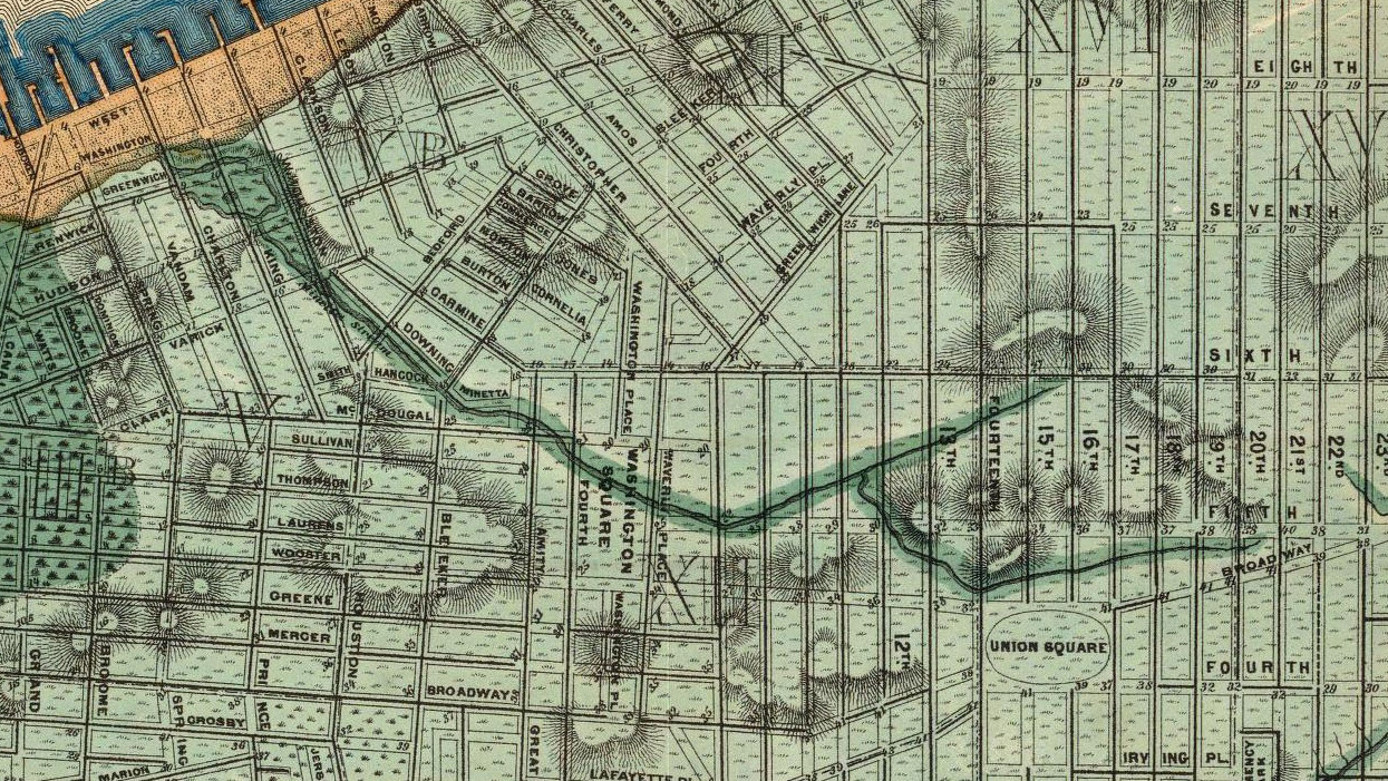 Topographical map showing approximate course of Minetta Creek, overlayed with street grid as of 1865, reproduced from Egbert Ludovicus Viele's "Sanitary & Topographical Map of the City and Island of New York"